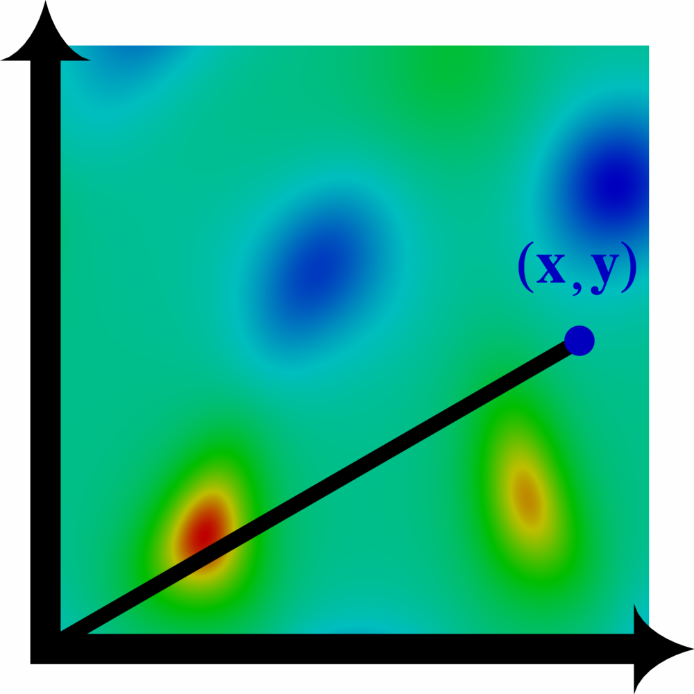 surface